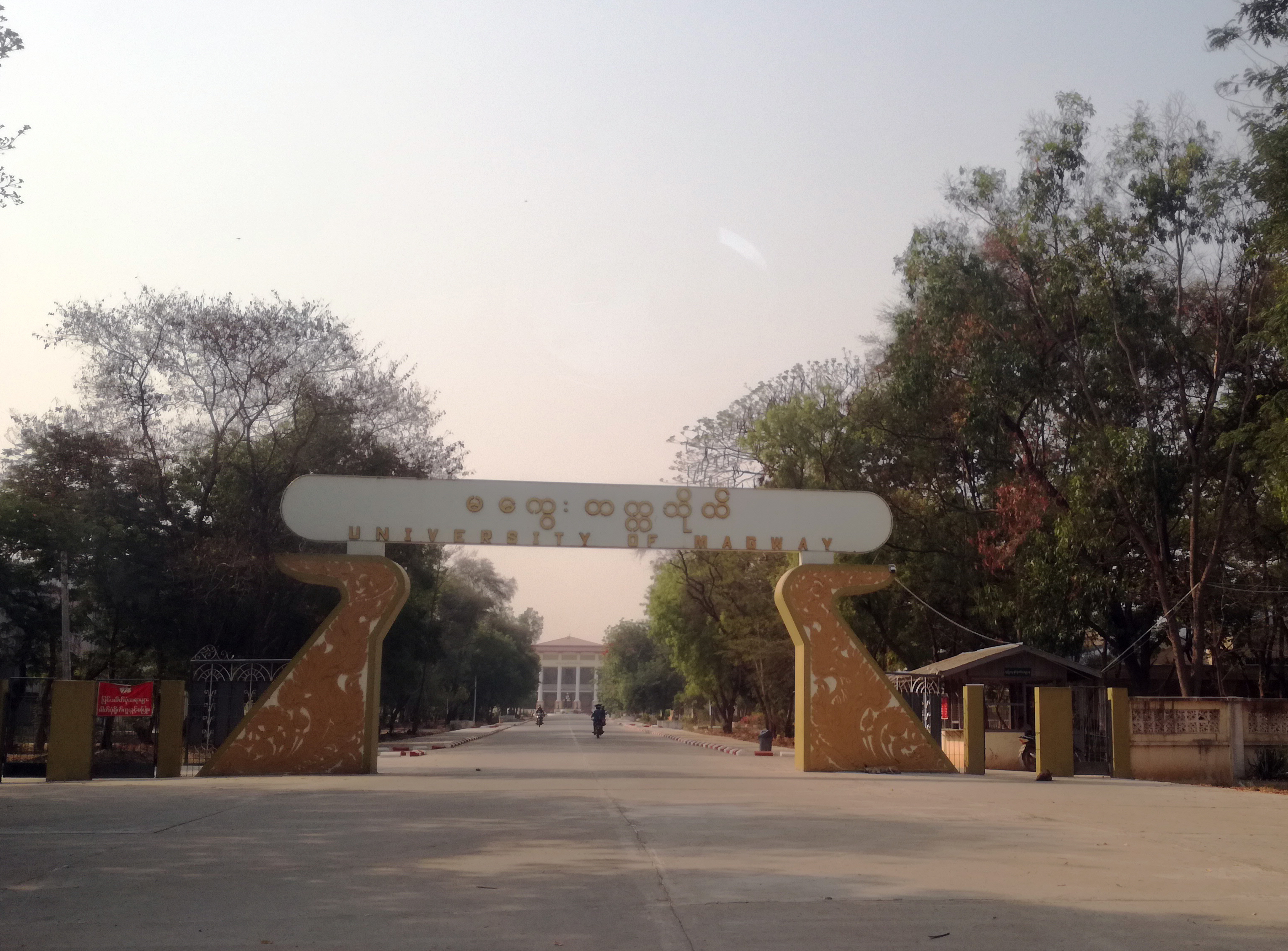 Magway University Front Gate